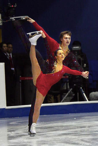 Ksenia OZEROVA and Alexander ENBERT (rus).Grand Prix Final 2008 – Juniors - Pairs